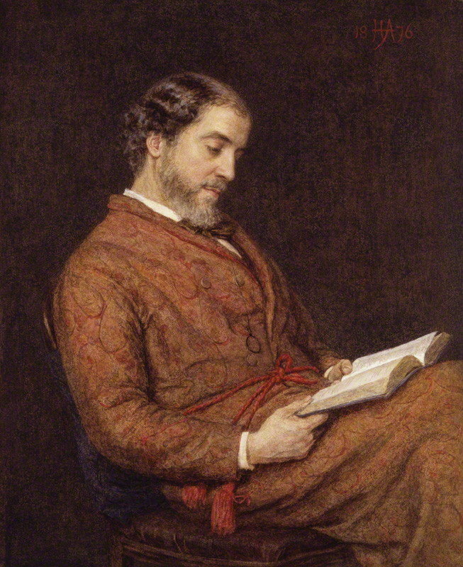 Watercolor portrait of William Allingham (1876) by Helen Allingham.